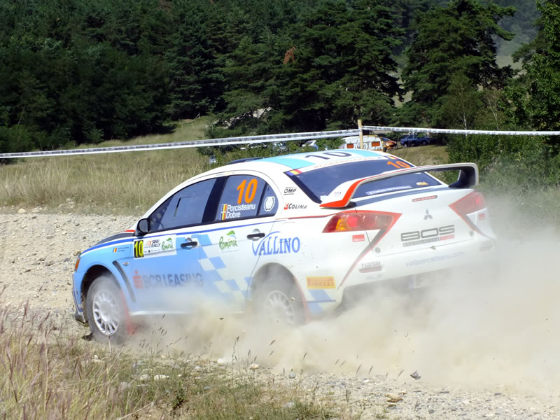 Valentin Porcisteanu - Dan Dobre - Mitsubishi Lancer EVO X R4 - IRC Sibiu Rally 2012